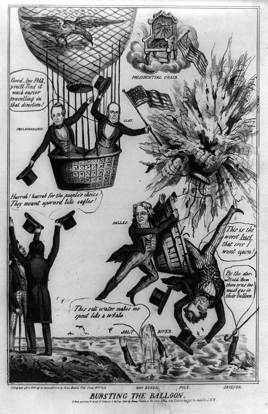 Bursting the balloon. Democratic frustrations in the race for the "Presidential Chair" are again parodied in the sequel or companion to "Balloon Ascension to the Presidential Chair" (no. 1844-32). Here the ascent of the Democrats is foiled as their balloon explodes, dumping Polk (far right) and his vice-presidential running-mate George M. Dallas into Salt River. Henry Clay seems to have punctured the balloon with a flag staff. Already in the water are former Democratic warhorses Martin Van Buren and Andrew Jackson. "Salt River" was a colloquialism for political misfortune or failure. Polk, falling, says: "This is the worst "bust" that I ever went upon!" Van Buren, spouting water: "This salt water makes me spout like a whale." Jackson, waving his cane: "By the eternal! I told them there was too much gas in their balloon." On the left Whig candidates Clay and Frelinghuysen rise triumphantly toward the Presidential Chair in a balloon adorned with an American eagle. Clay says, "Good-bye Polk, you'll find it much easier travelling in that direction!" Frelinghuysen waves to supporters who cheer him from below, "Hurrah! hurrah for the people's choice! They mount upward like eagles!"